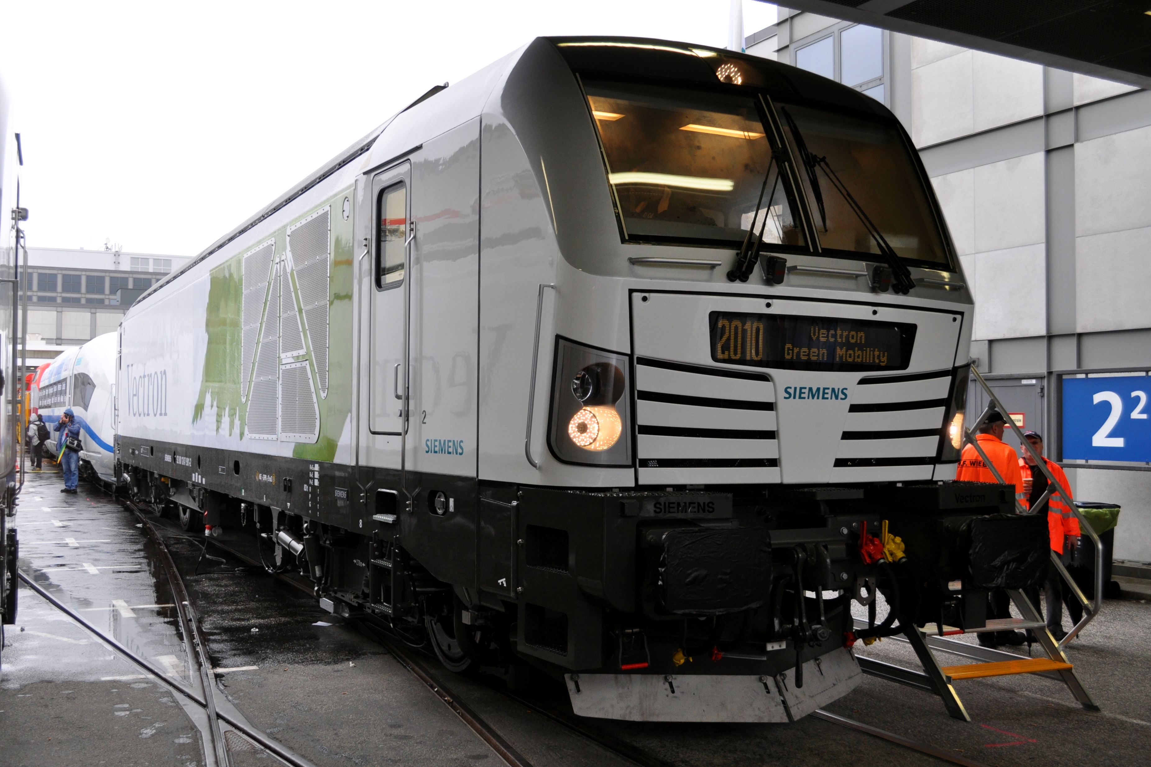 Siemens Vectron (Konfiguration: Diesel-Electric - 2400kW - Passenger-package) at the InnoTrans 2010 in Berlin